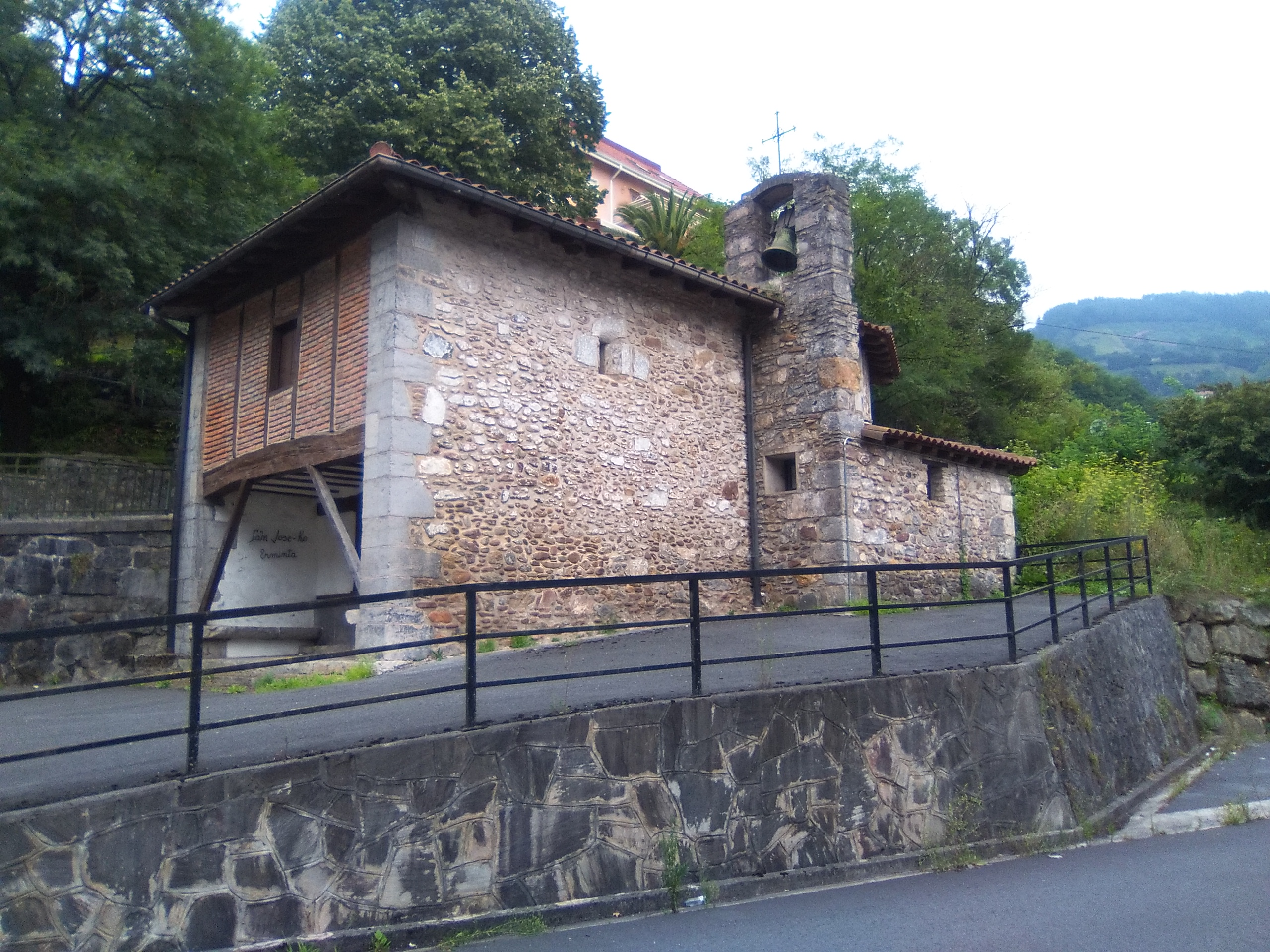 San Joseph hermitage, Belauntza. Gipuzkoa, Basque Country.